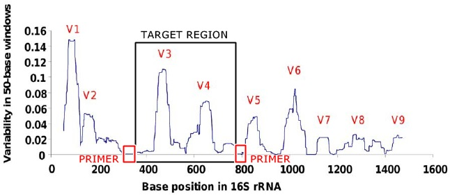 A schematic view of primers and target region for PCR amplification, demonstrated on 16S rRNA gene in Pseudomonas. Primers are short conserved sequences with low variability that can target most or all species in the chosen target group. They are used to amplify highly variable target region in between two primers, which is the basis for species discrimination. Modified from »Variable Copy Number, Intra-Genomic Heterogeneities and Lateral Transfers of the 16S rRNA Gene in Pseudomonas - Scientific Figure on ResearchGate« by Bodilis, Josselin; Nsigue-Meilo, Sandrine; Besaury, Ludovic; Quillet, Laurent, used under CC BY, available from